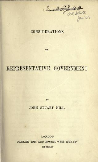 Title page of John Stuart Mill (1861) Considerations on Representative Government, London: Parker, Son, and Bourn OCLC: 3751806.